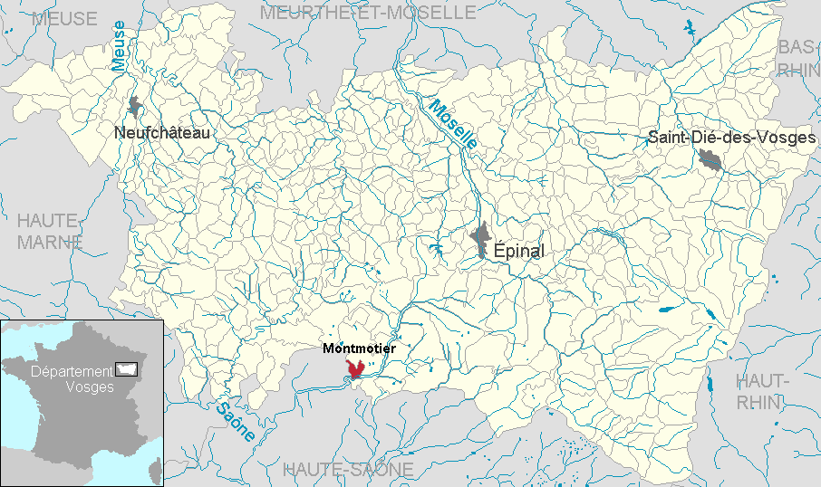 Montmotier in the department of Vosges, Lorraine, France